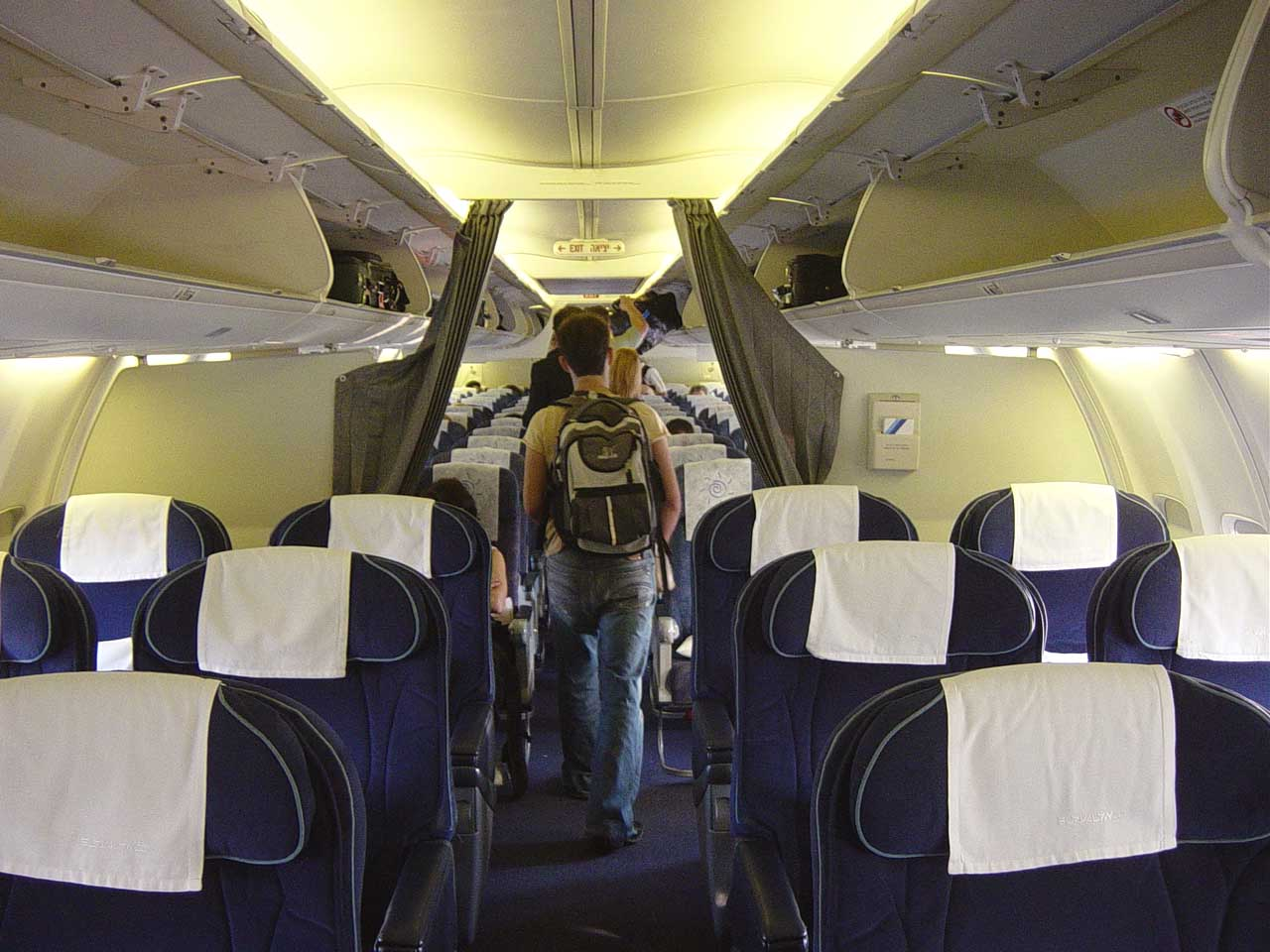 El Al Business class in a 757